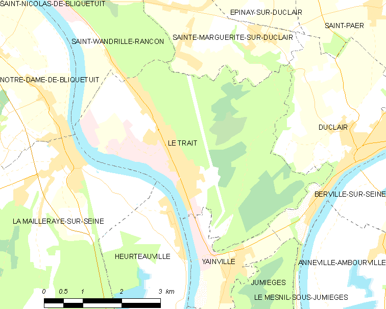 Map of French municipality Le Trait